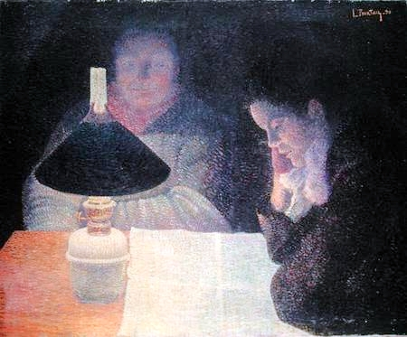 Lecture sous la lampe (Reading under the lamp) by French painter Léon Pourtau (1872-1898)